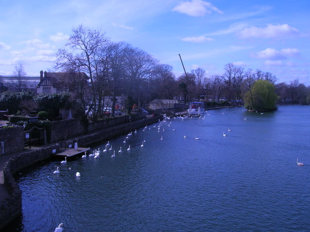 River Thames from Windsor Bridge Looking East